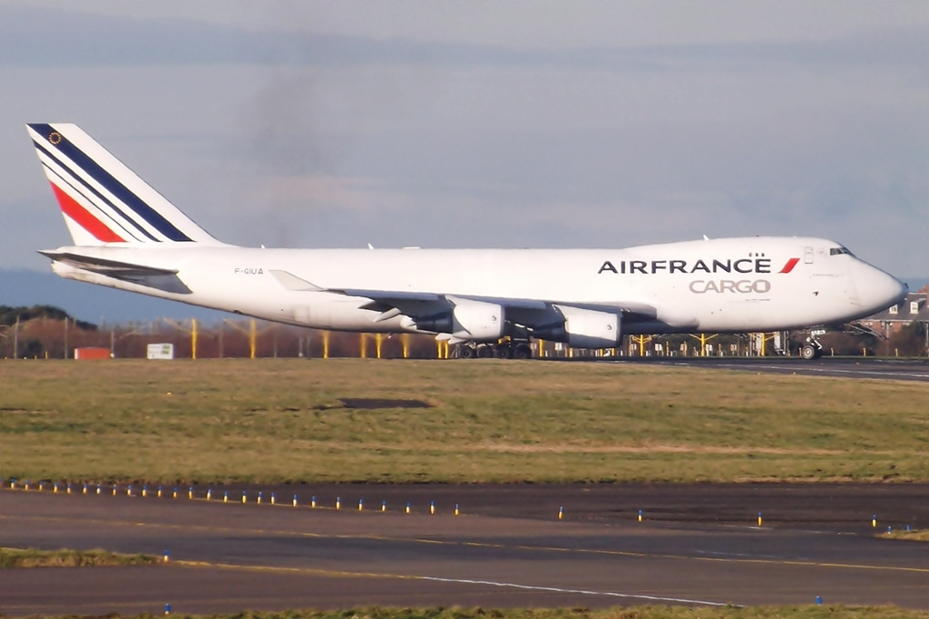 F-GIUA Boeing 747-400F Air France Cargo departing runway 13 at Prestwick